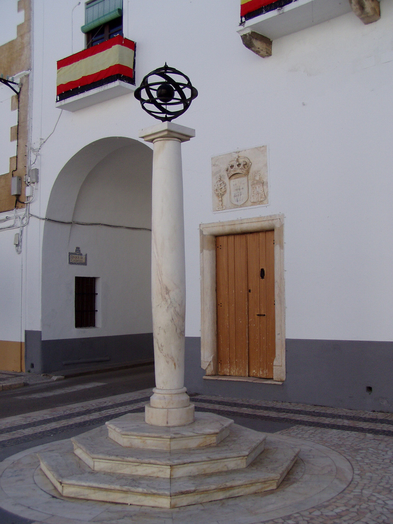 Olivenza, in Badajoz (Spain)